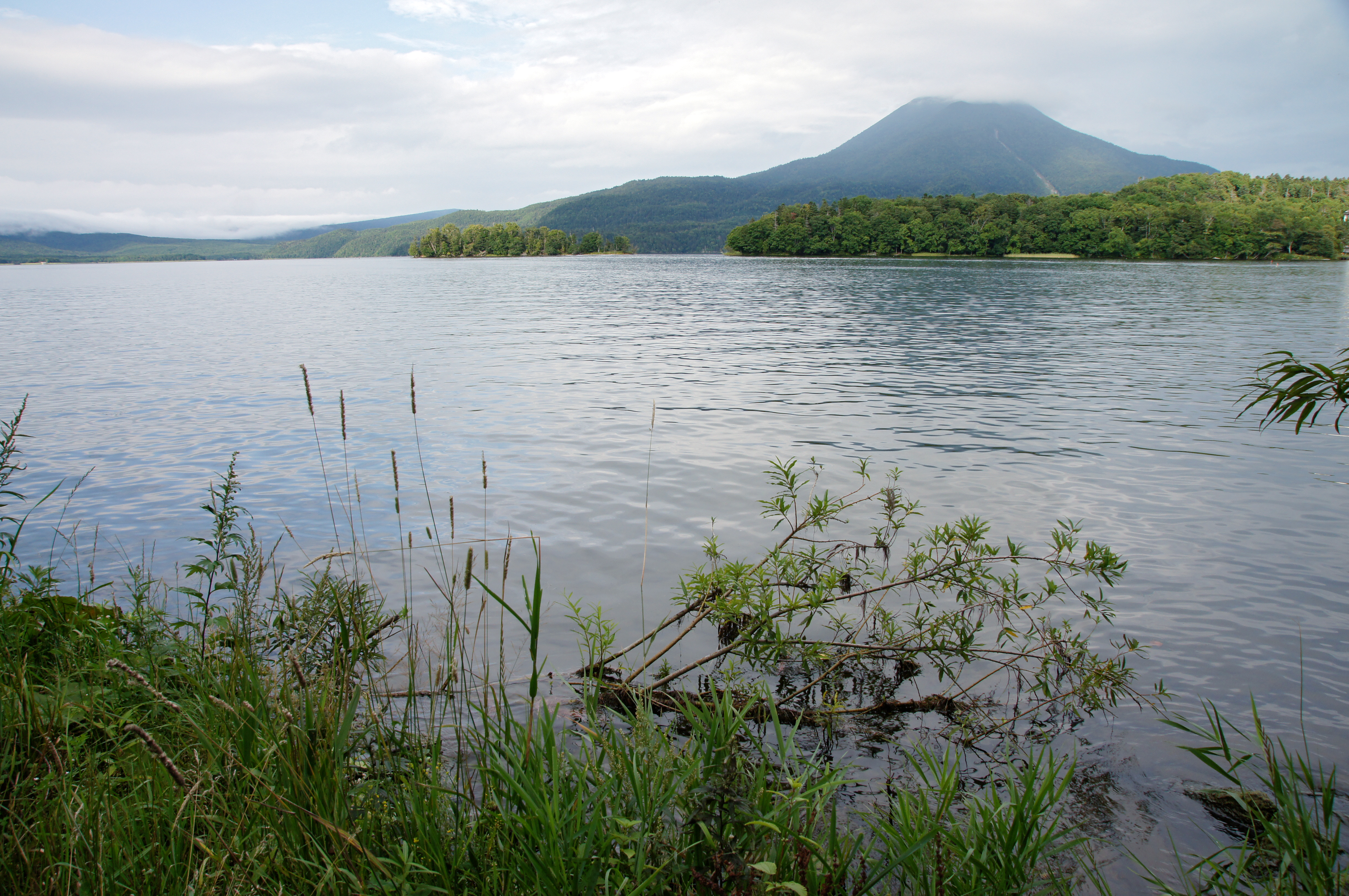 Lake Akan in Kushiro City, Hokkaido prefecture, Japan